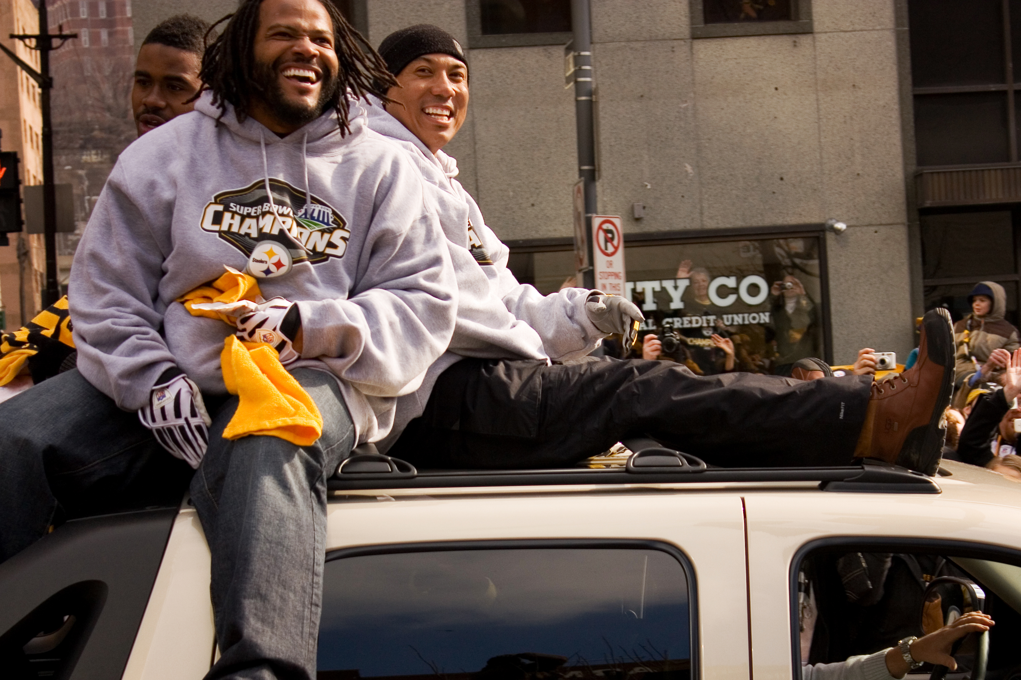 Photo of Nate Washington, Carey Davis and Hines Ward in the Pittsburgh Steelers Super Bowl XLIII victory parade in February 2009